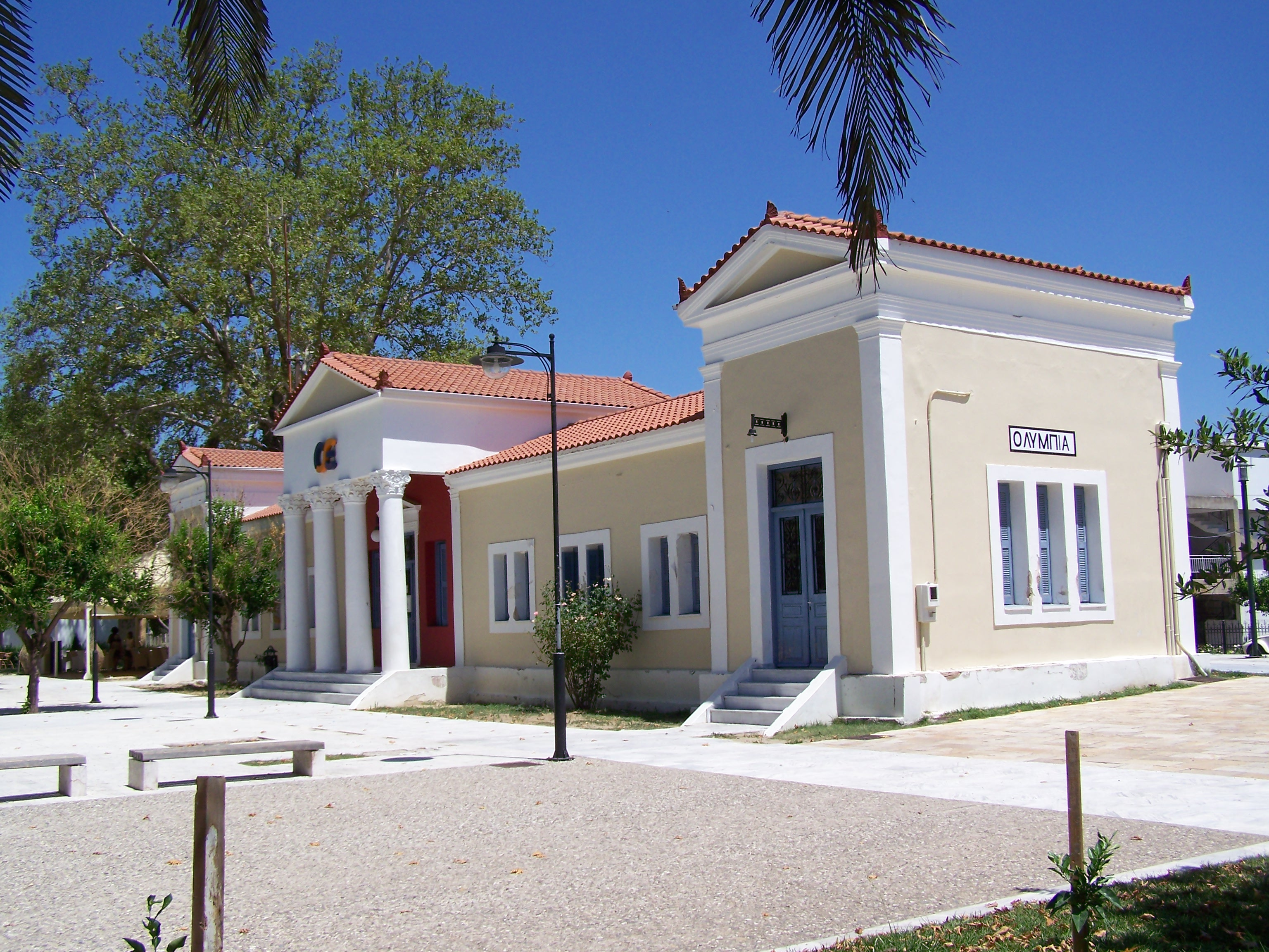 Train station in Olympia, Greece. Greek name “ΟΛΥΜΠΙΑ”.